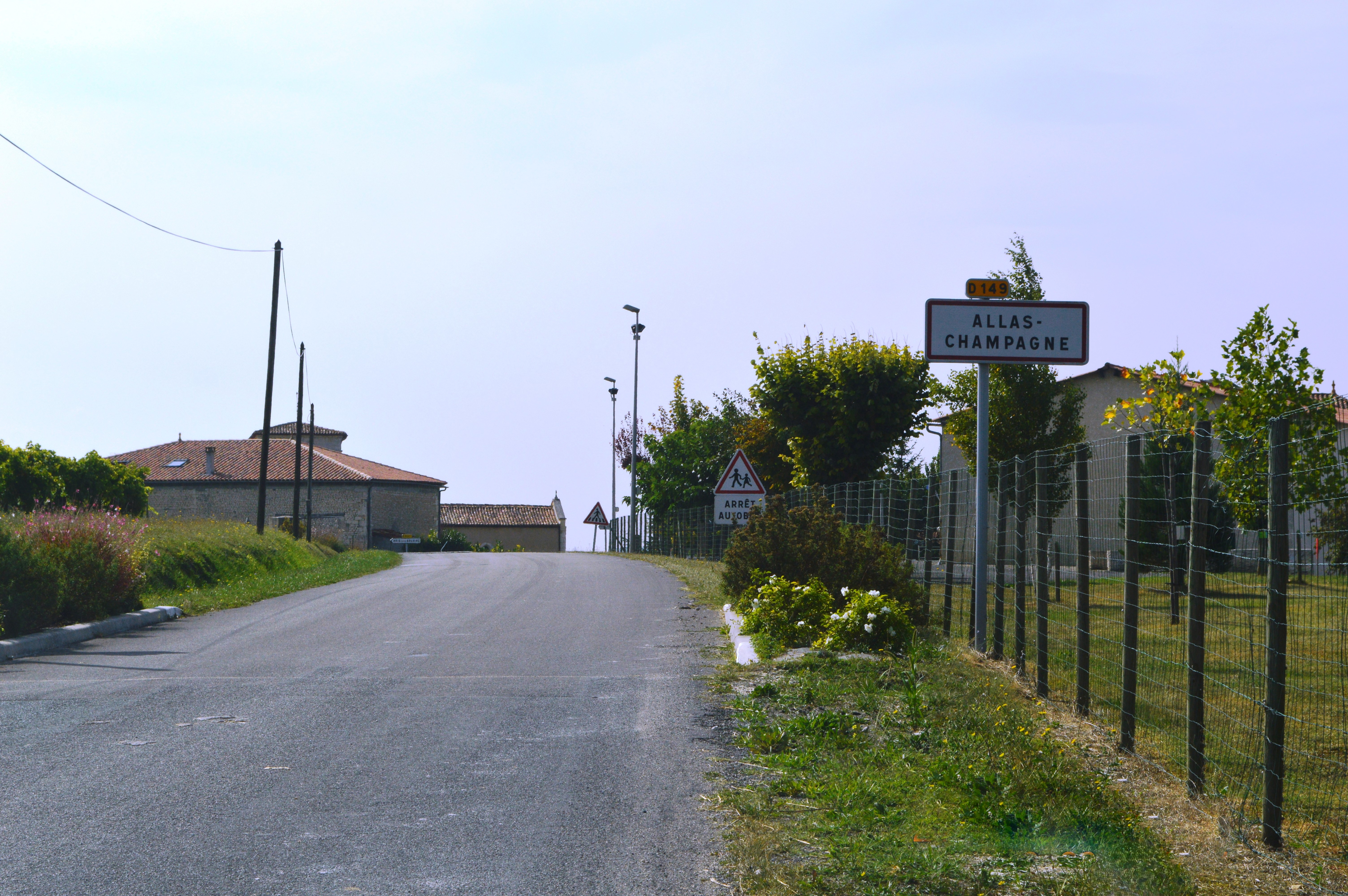 The entry to Allas-Champagne